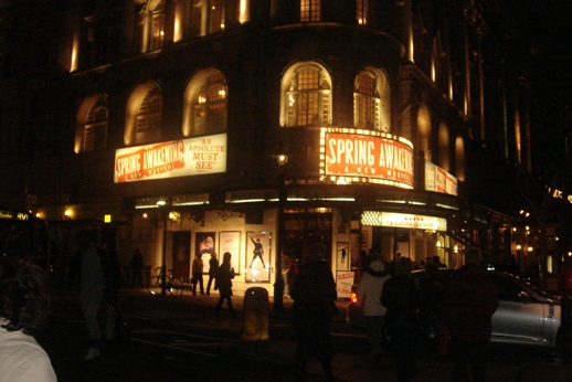 Novello Theatre in London's bill board showing Spring Awakening.